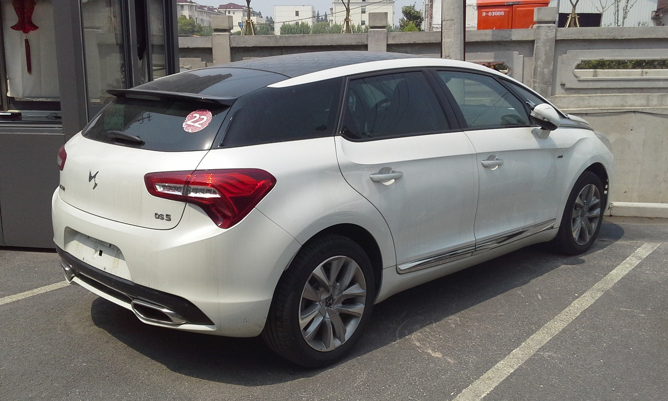 DS 5 photographed in Shanghai, China.